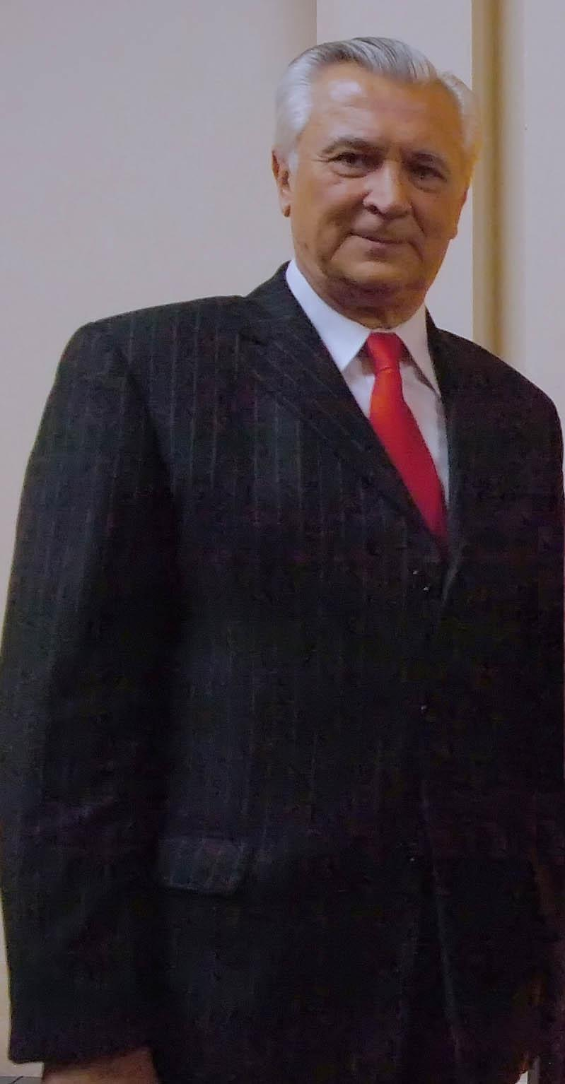 The Mayor of General San Martín Partido in Greater Buenos Aires, Argentina, Ricardo Ivoskus.